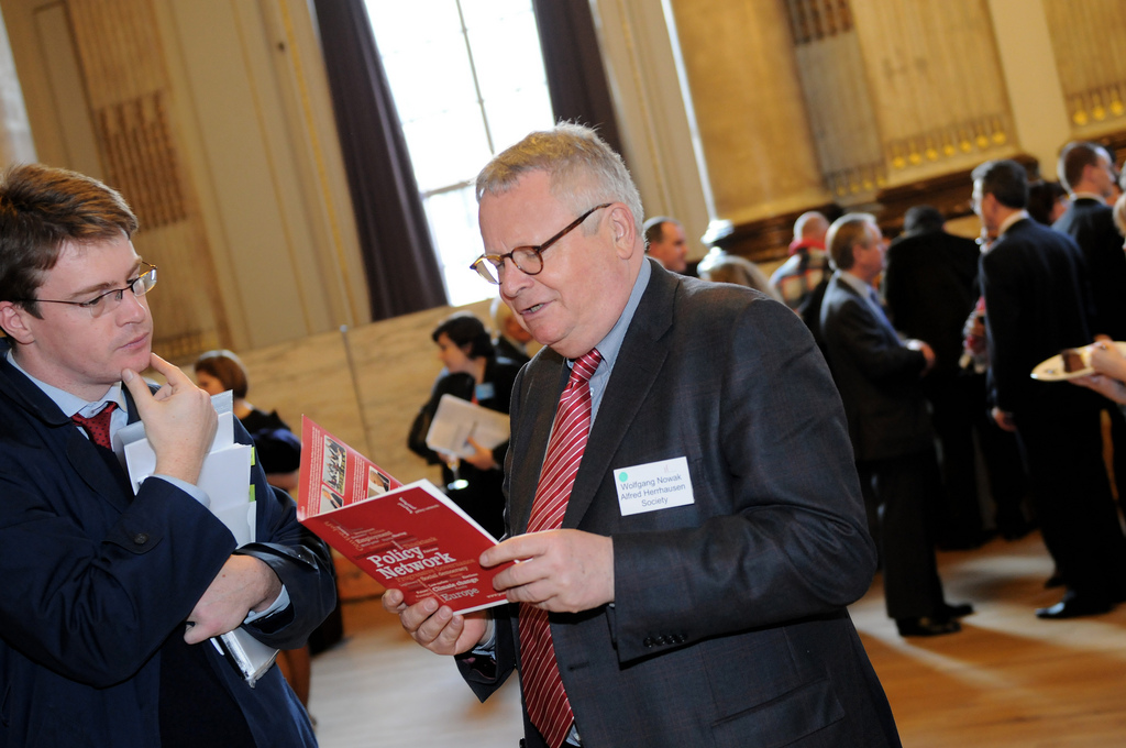 Wolfgang Nowak and Patrick Diamond